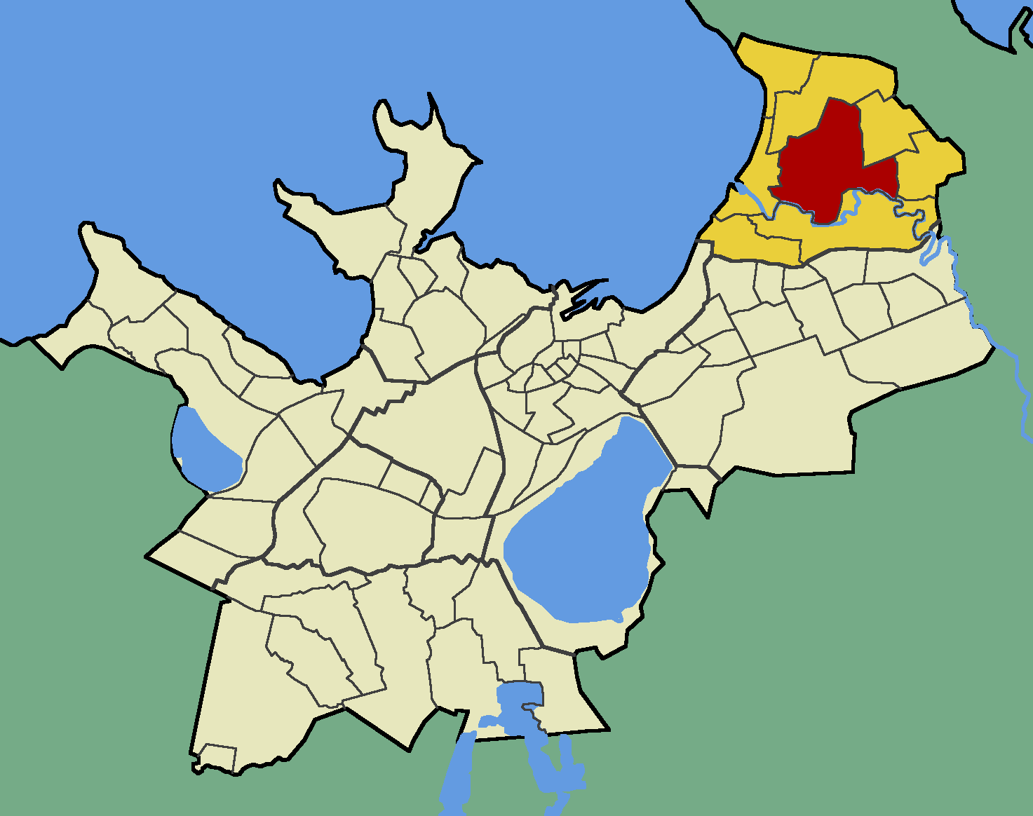 Map of Tallinn (Estonia) with borders of the quarters, Pirita district and Kloostrimetsa quarter emphasised